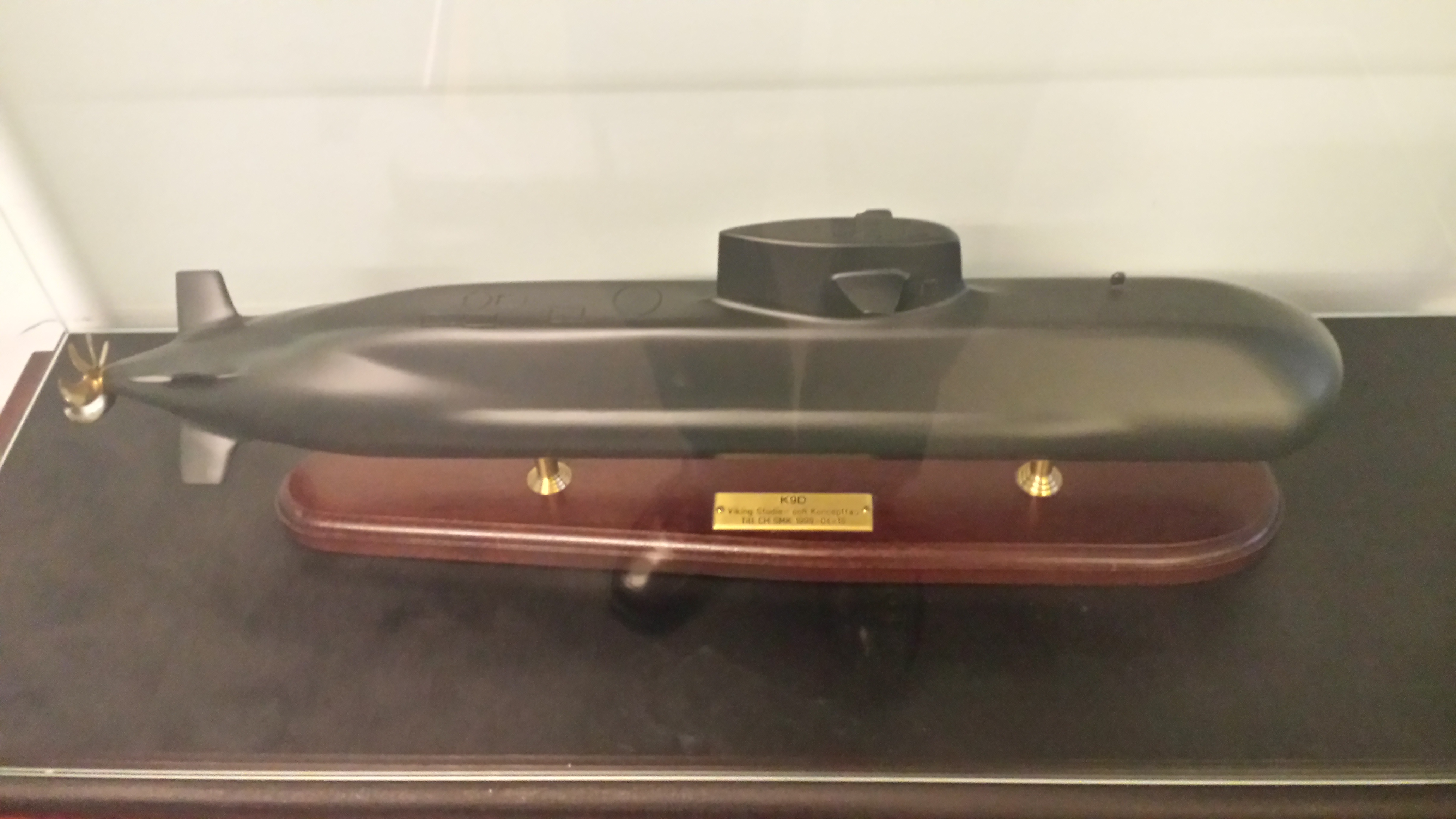 This shows a K9D Viking Class submarine model